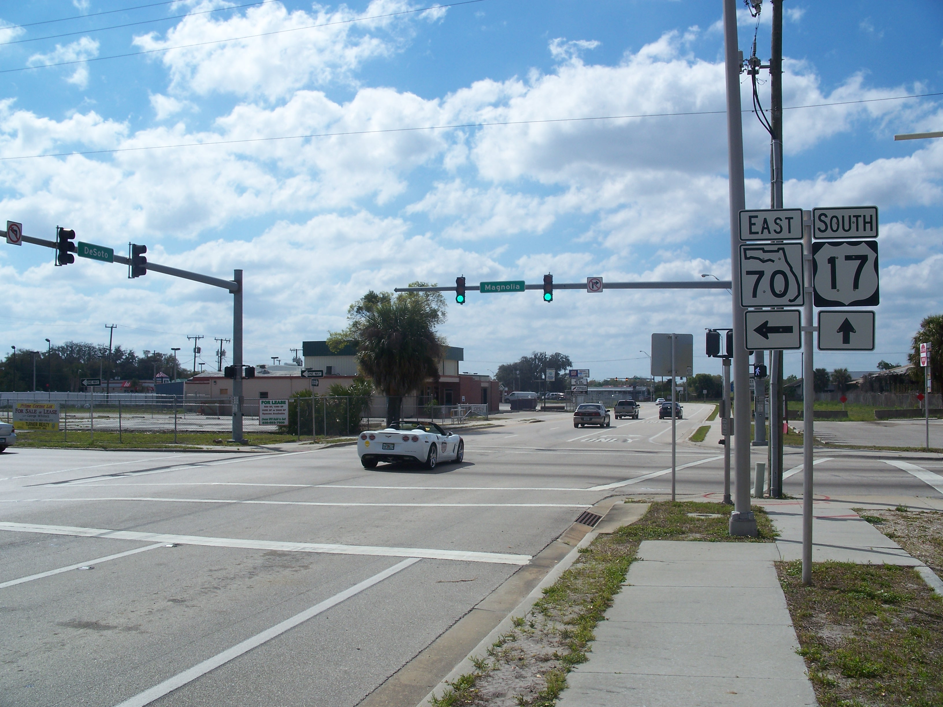 Arcadia, Florida: Intersection of US 17 and State Road 70